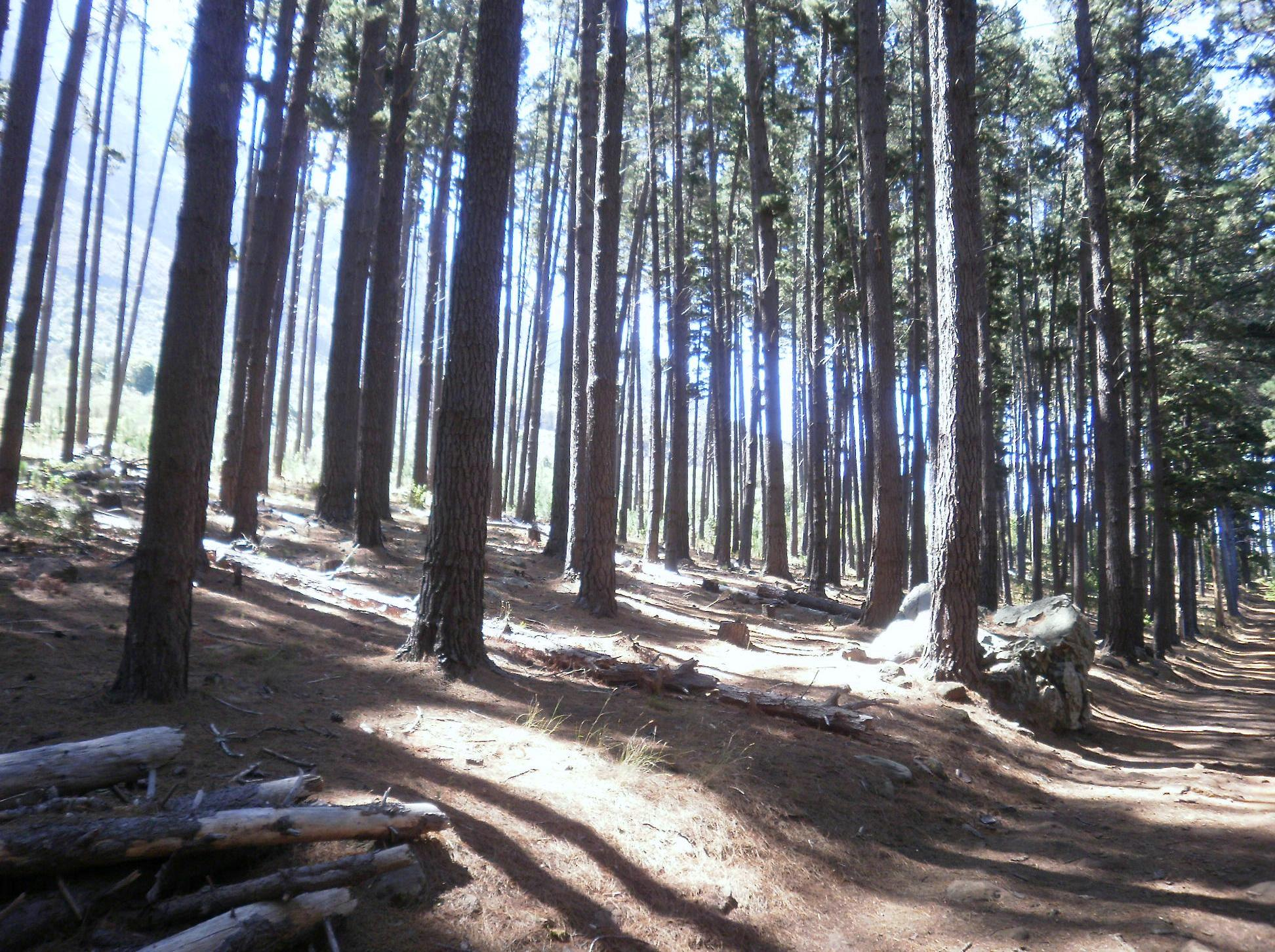 Commercial pine plantations at Newlands Forest. Cape Town.